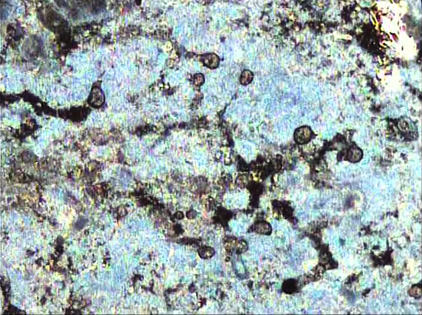 The low magnification testifies to the presence of amoebae in the periodontal biofilm. Channels like area visible from amoebae movement.